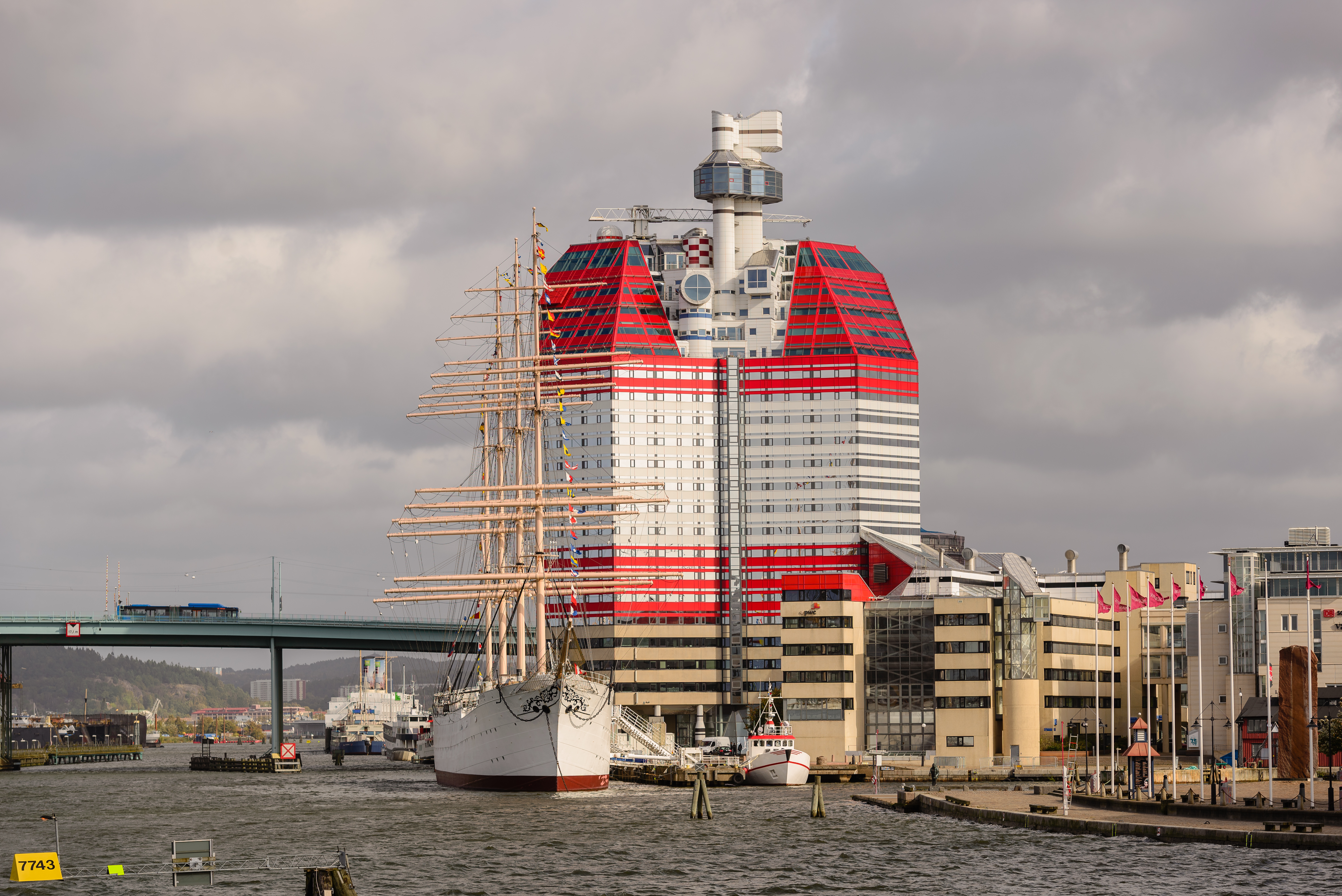 The area LIlla Bommen in Gothenburg with “Skanskaskrapan” designed by Ralph Erskine